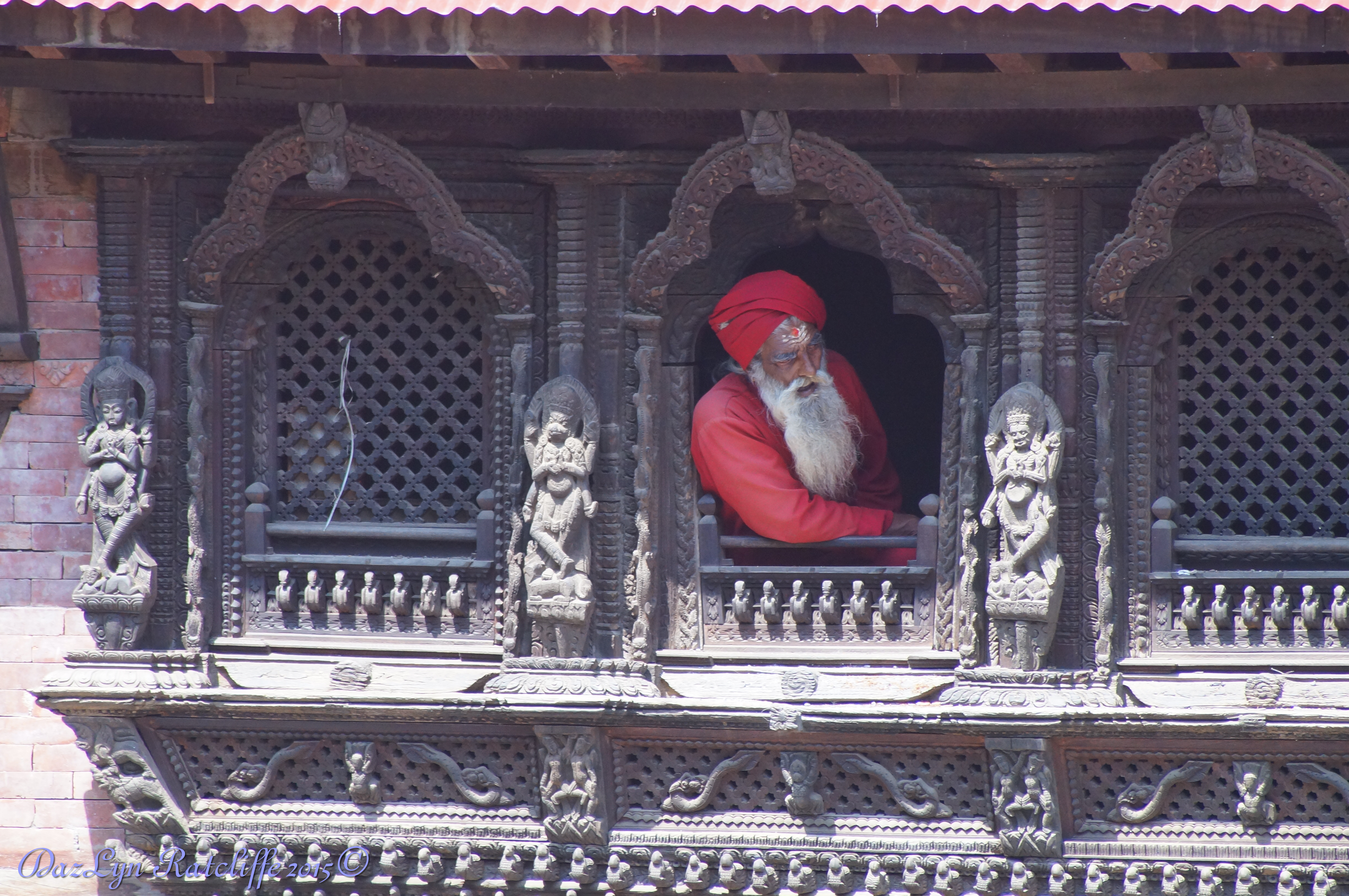 Hindu person in building at Gaurighat on the Bagmati River, Kathmandu, Nepal